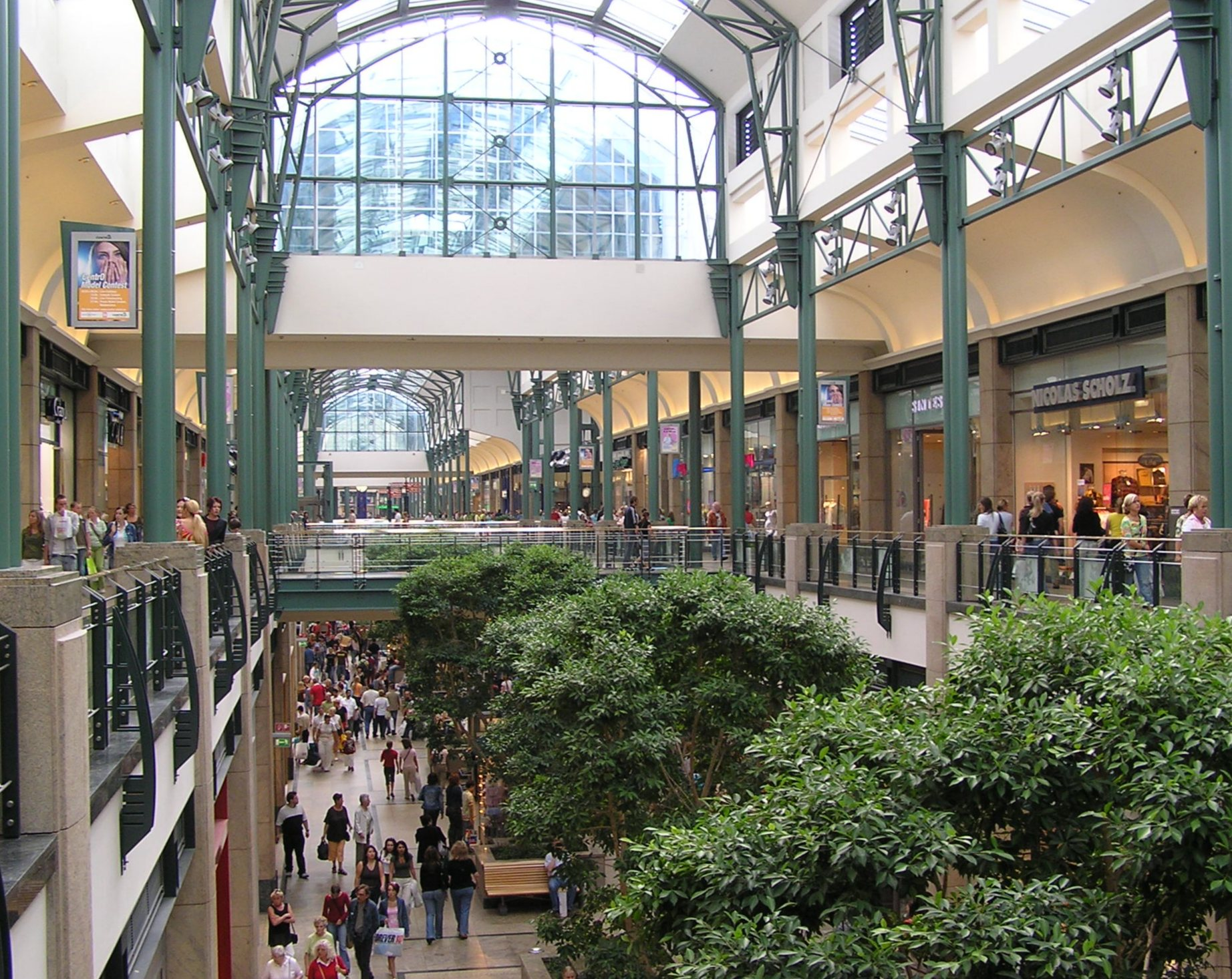 Shopping mall CentrO, Oberhausen